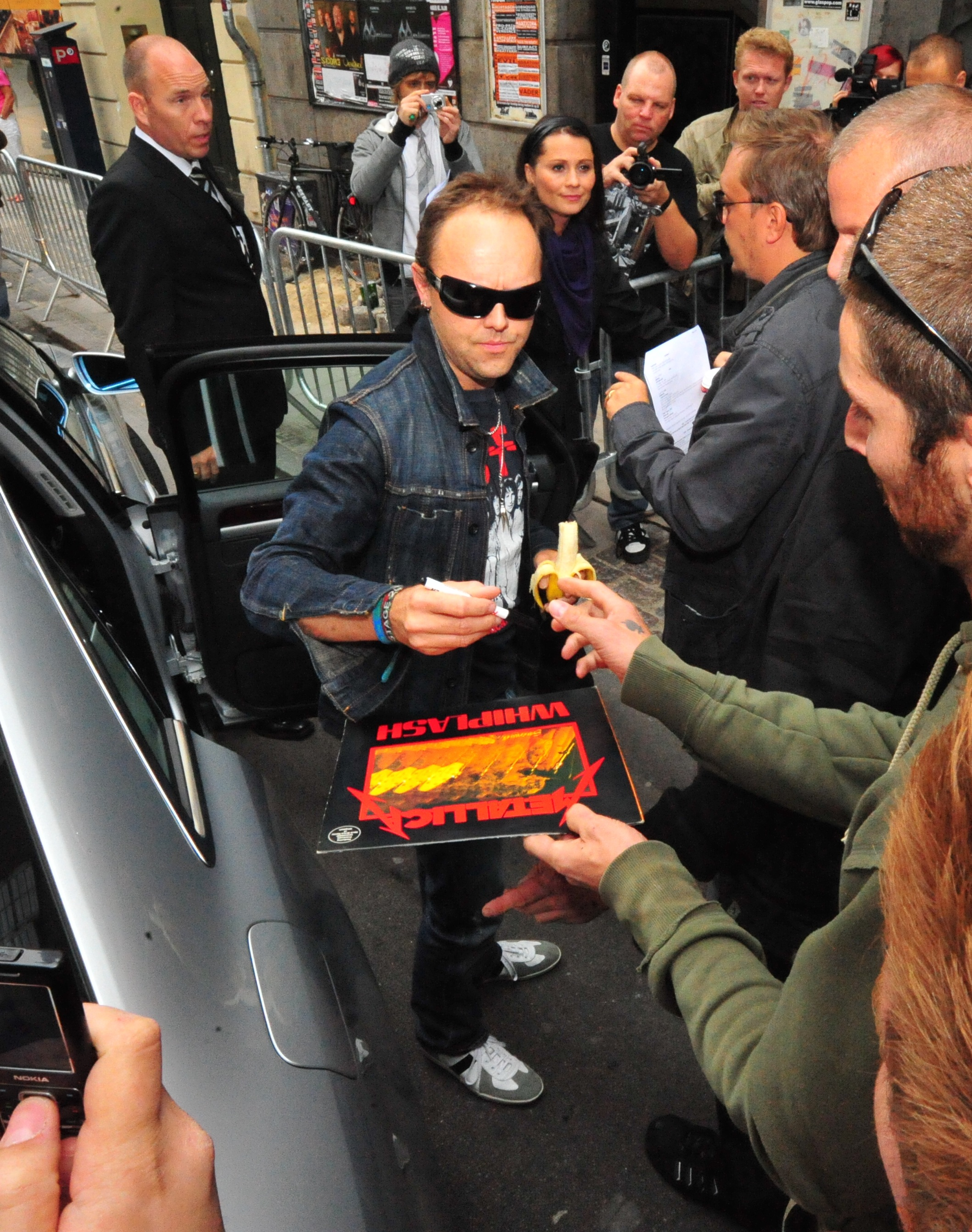 Lars Ulrich in front of The Rock, Copenhagen Denmark.